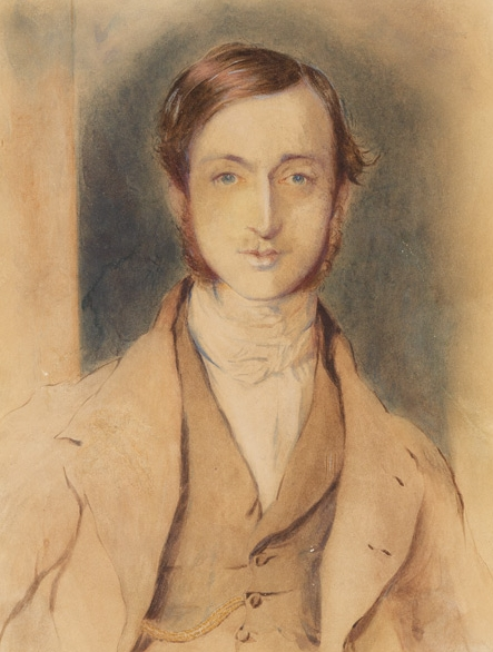 Portrait of a Young Man (Self-portrait), pencil and watercolour on paper, 41 x 33 cm.